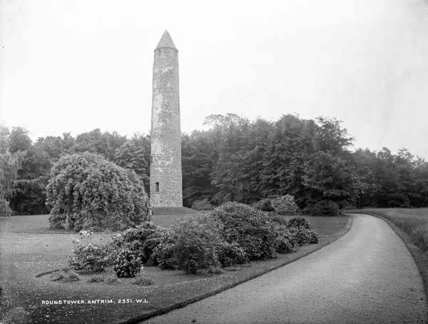 As file